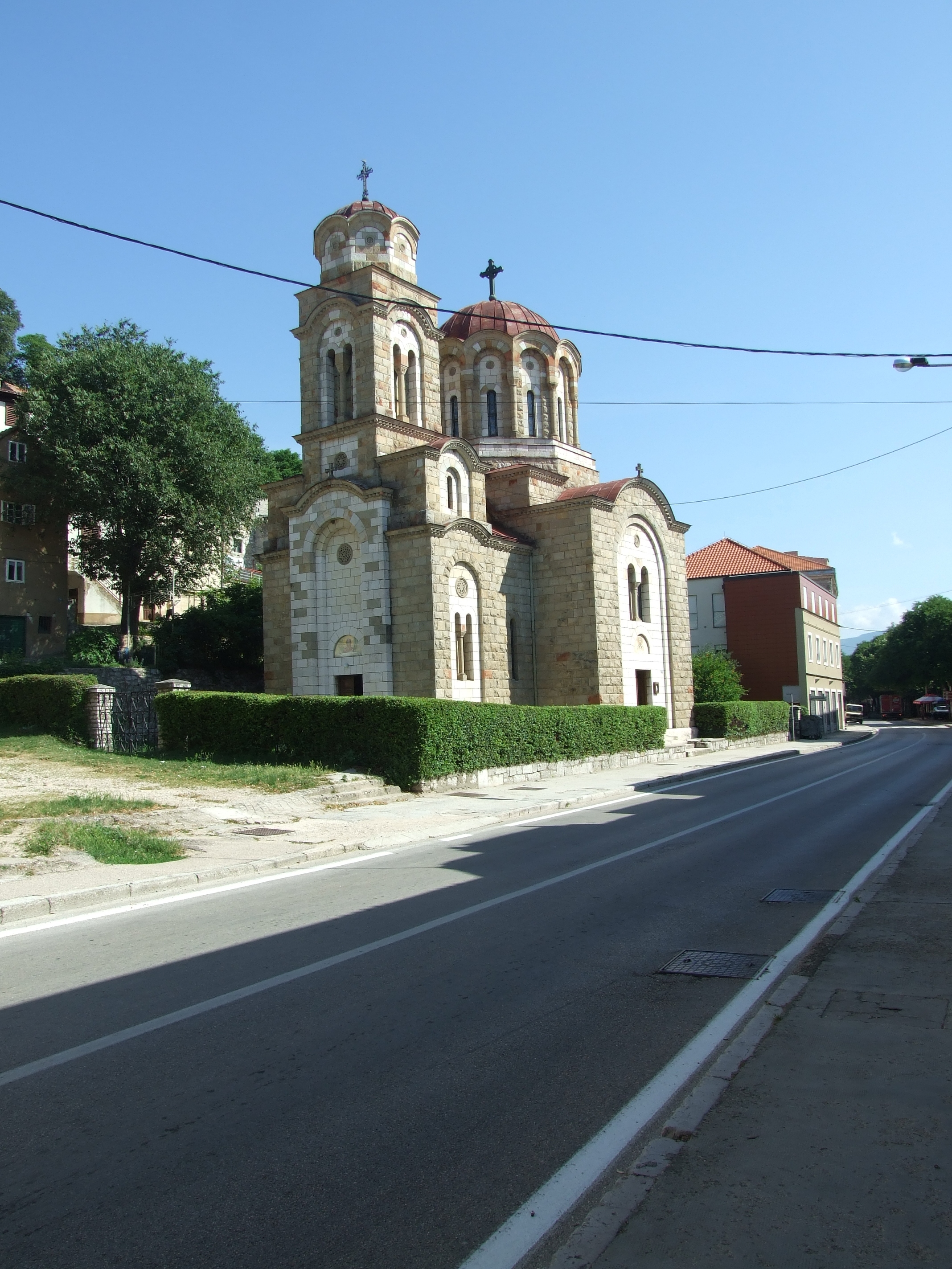 Orthodox church in Knin, Croatia.